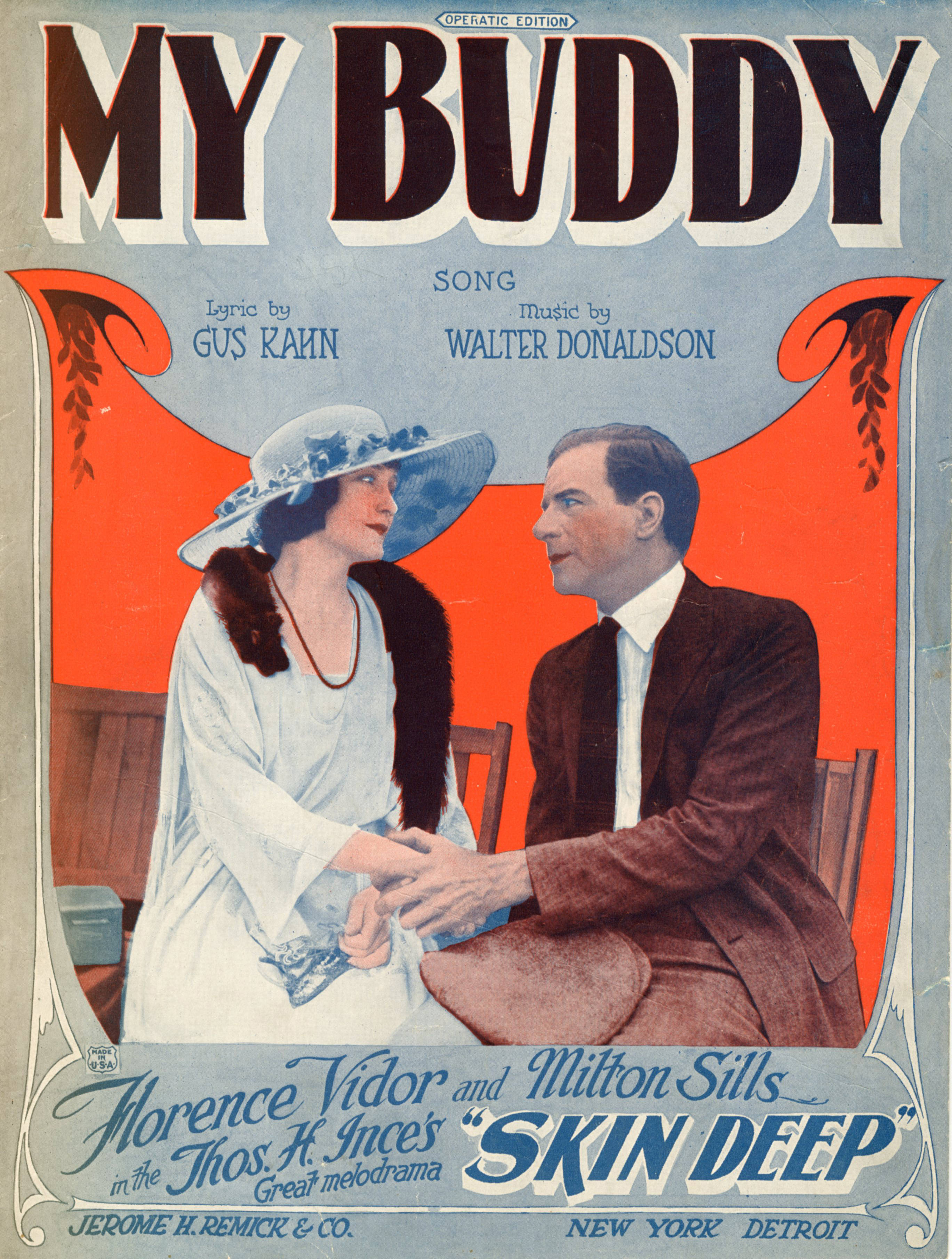 Sheet music cover: "My Buddy : Song" 1 vocal score (5 p.) ; 31 cm. Illustrated cover with images of Florence Vidor and Milton Sills. Skin Deep (Motion picture : 1922)